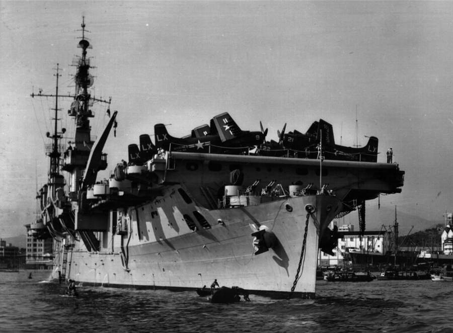 The U.S. light aircraft carrier USS Saipan (CVL-48) at anchor at the British Crown Colony Hong Kong in February 1954. Douglas AD Skyraiders of Marine Attack Squadron 324 (VMA-324) Vagabonds are parked on the bow.